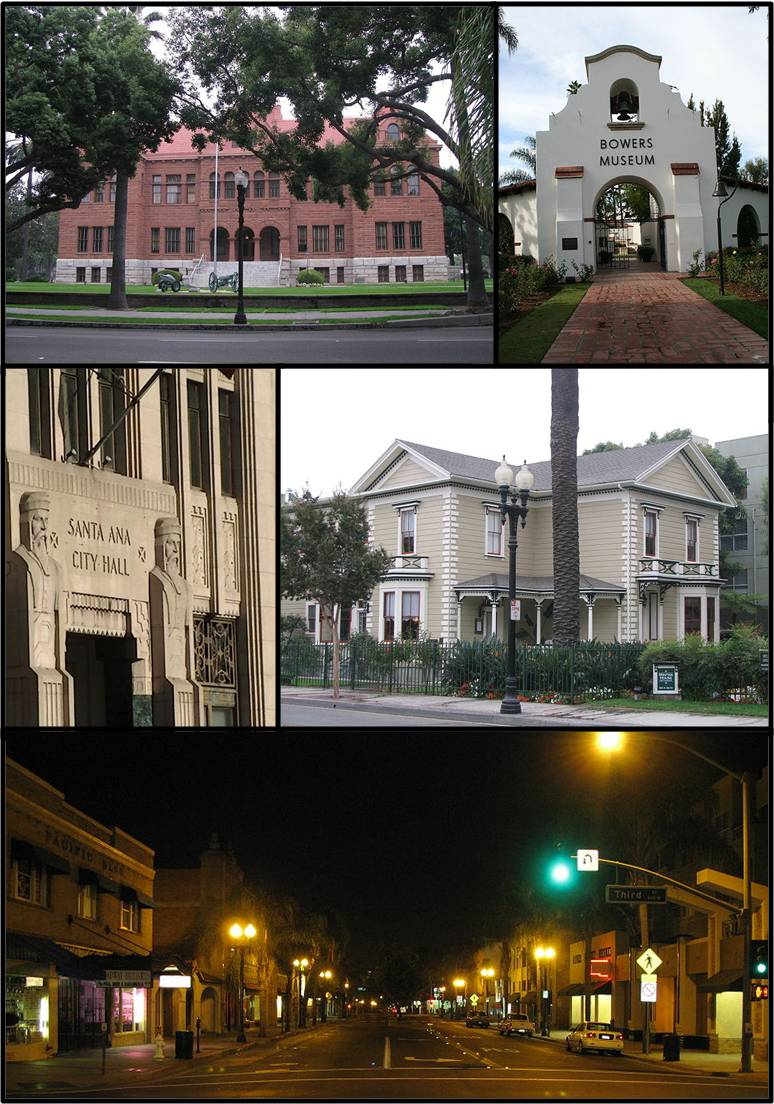 Collage of photos in Santa Ana, California